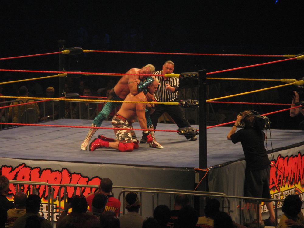 Hulkamania Tour @ Rod Laver Arena. Melbounre, AUS.